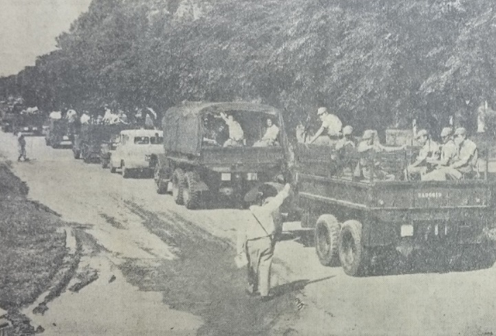 Argentina. War between Blues and Reds - Lanusse is leaving Campo de Mayo heading La Plata and Punta Indio- April 2nd 1963.